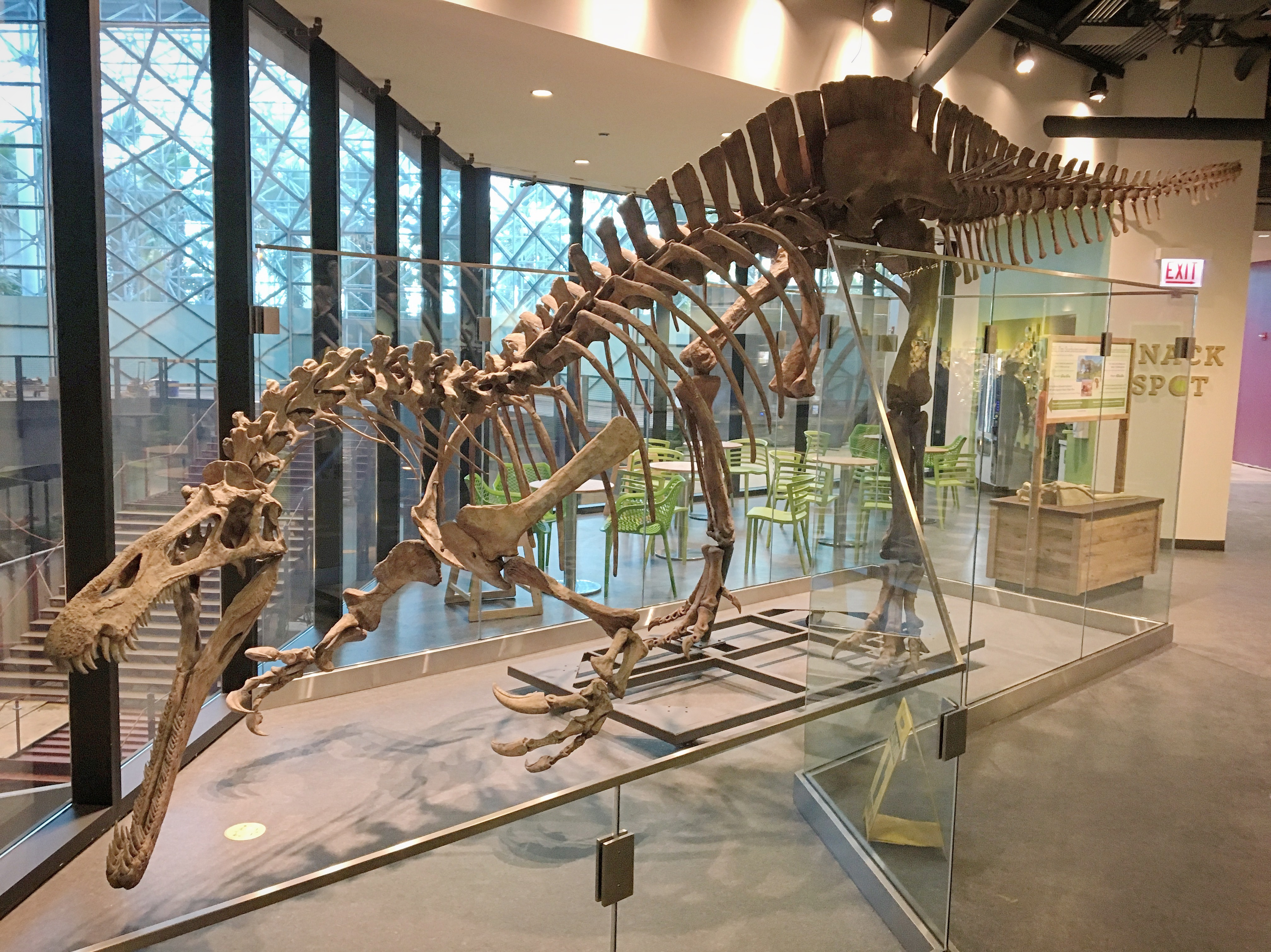 Suchomimus skeleton mounted at the Children's Museum of Chicago. This is the updated display for the 2018 renovation.